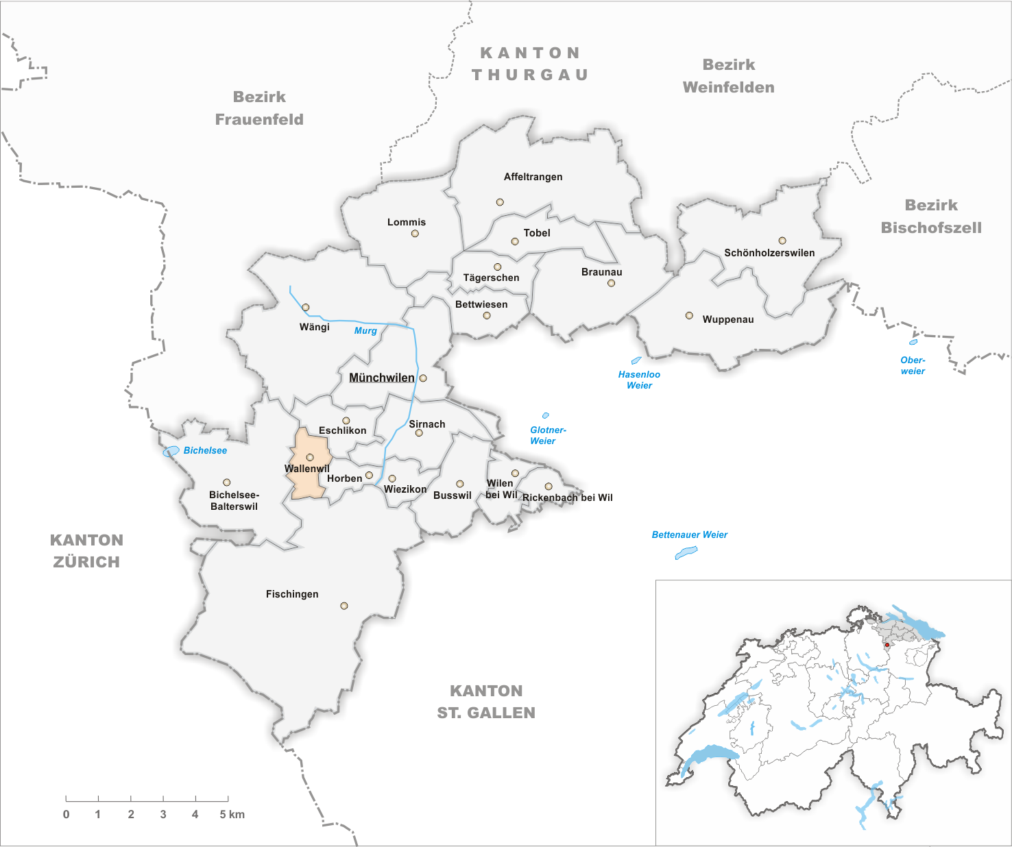 Municipality Wallenwil